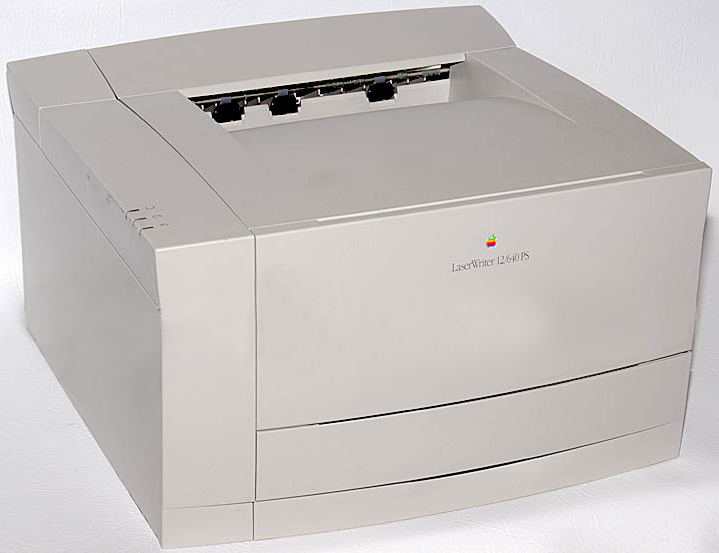 Apple Laser Writer 12/640 PS